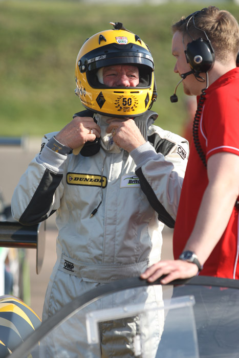 Mike Wilds, Britcar Dunlop Endurance Round 2, Snetterton 300, 8 May 2016